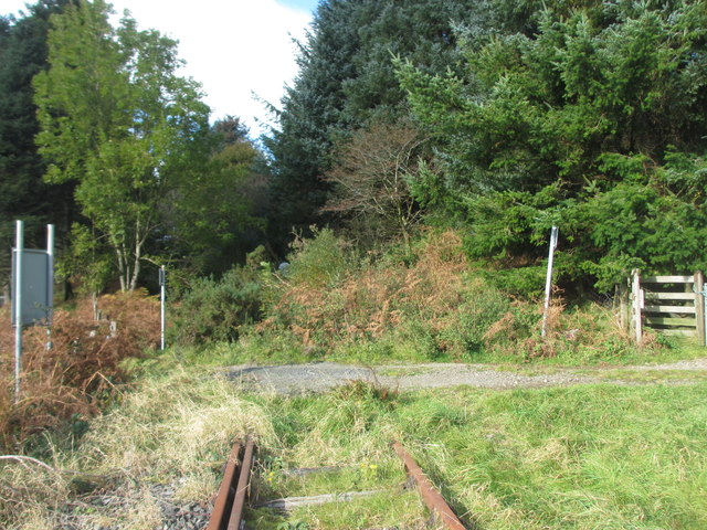 Overgrown site of Teigl Halt railway station